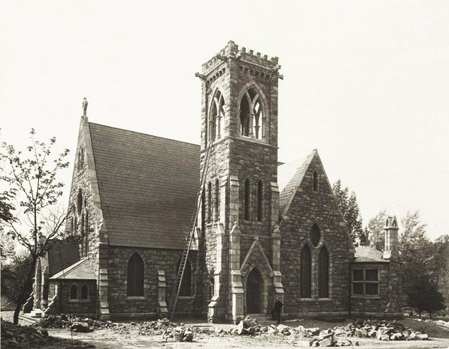 University of Virginia: Chapel towards the end of the construction period (1889?) Description of the image in the University of Virginia Visual History Collection: Title: University Chapel construction (...) Comments: Building of the University Chapel Image Filename: prints07853 Accession Number: Copy Negative Number: Neg 4x5 929